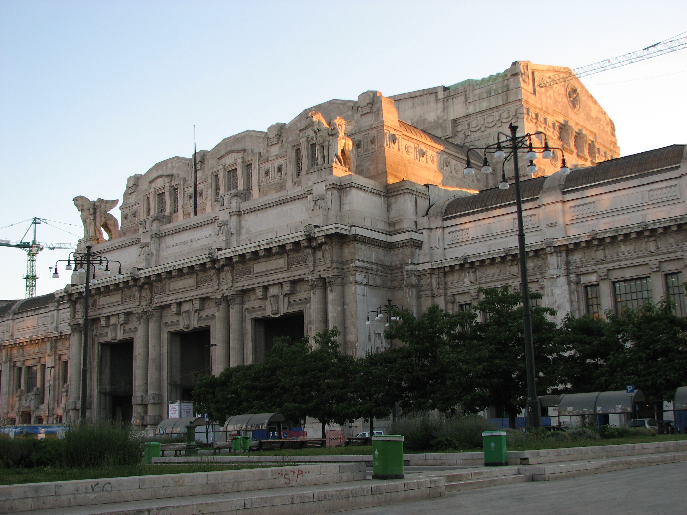 The facade of the Central train station in Milan, Italy.